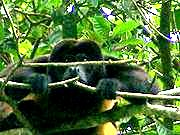 Male Mantled Howler (Alouatta palliata) breaking stick at Manuel Antonio National Park. Taken with telephoto lens and brightened using computer software.